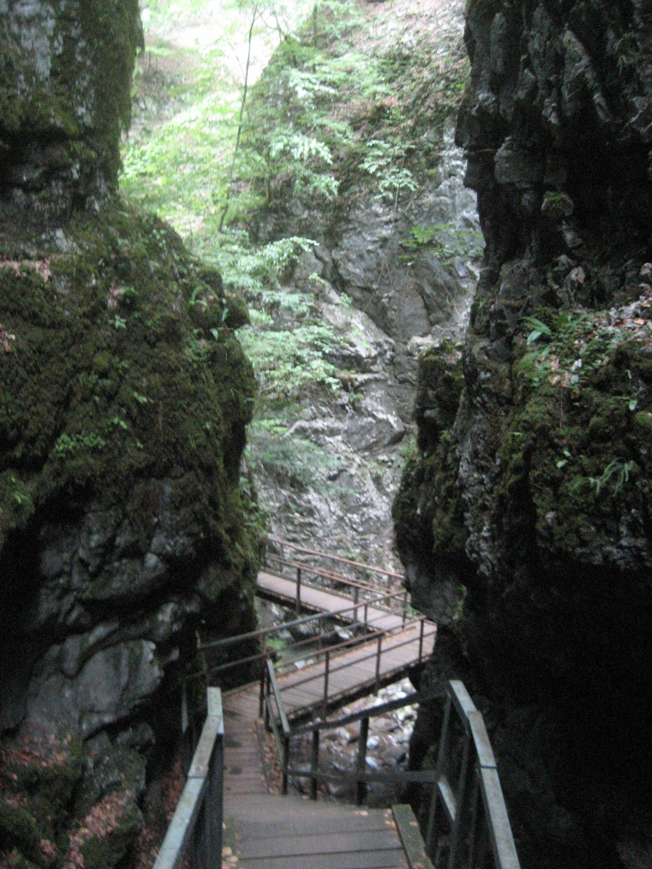 Canyon Vraziji Prolaz,Croatia